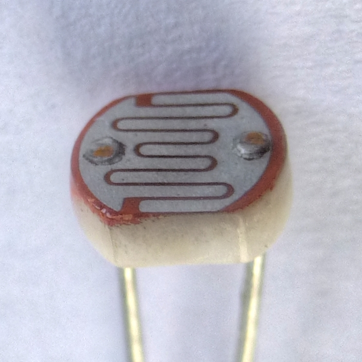 Photoresistor - LDR